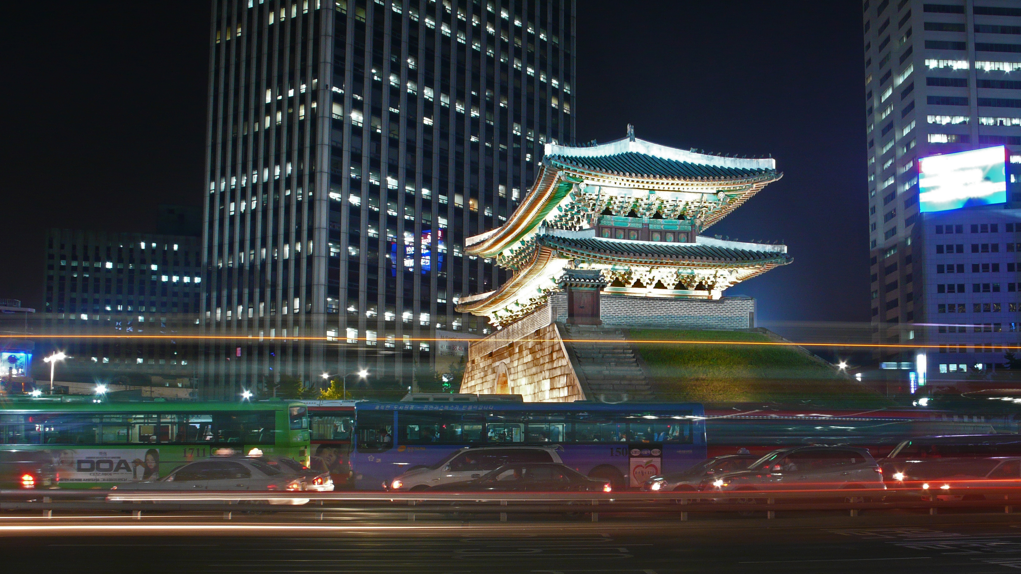 Namdaemun(Sungnyemun) in Seoul, South Korea lit up with traffic and modern buildings.